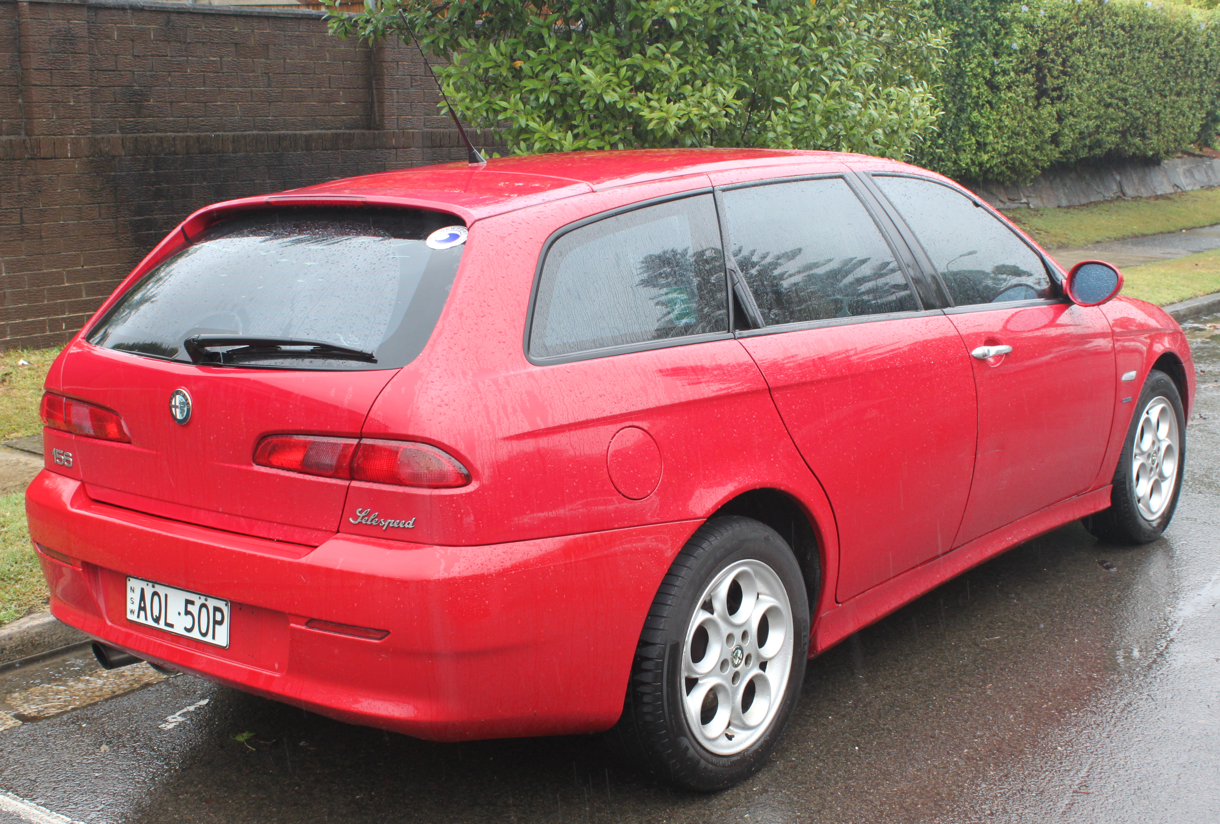 Alfa Romeo 156 Selespeed Wagon